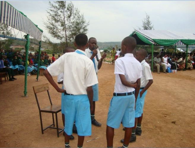 samg acting with Antony Mroso and other samg boys like Masalu,Mkapa and Ezekiel as samg was the leader..